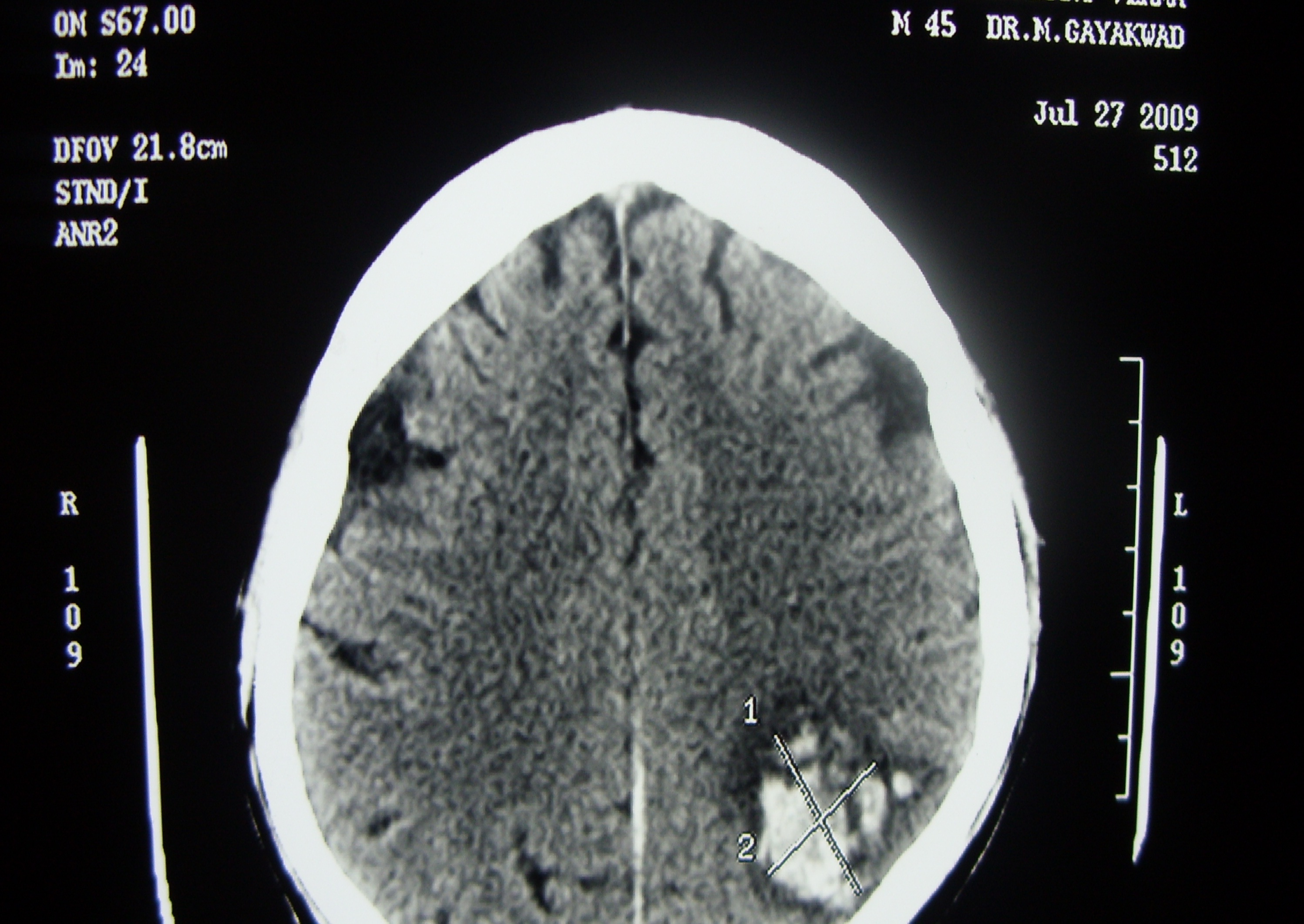 Intracerebral haemorrhage in alcoholic patient who presented with left hemiparesis and slurresd speech